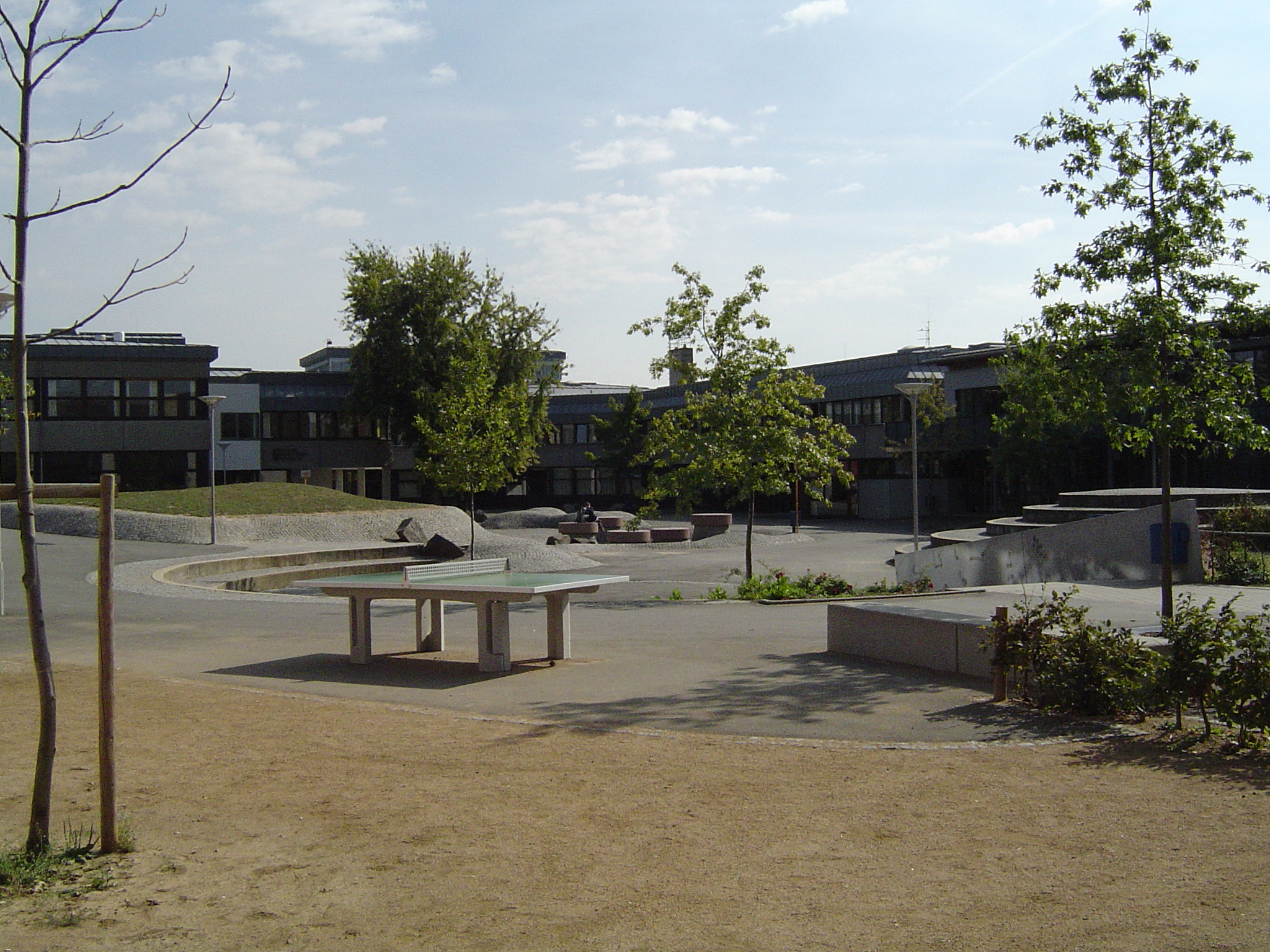 Main building of Hanns-Seidel-Gymnasium Hösbach